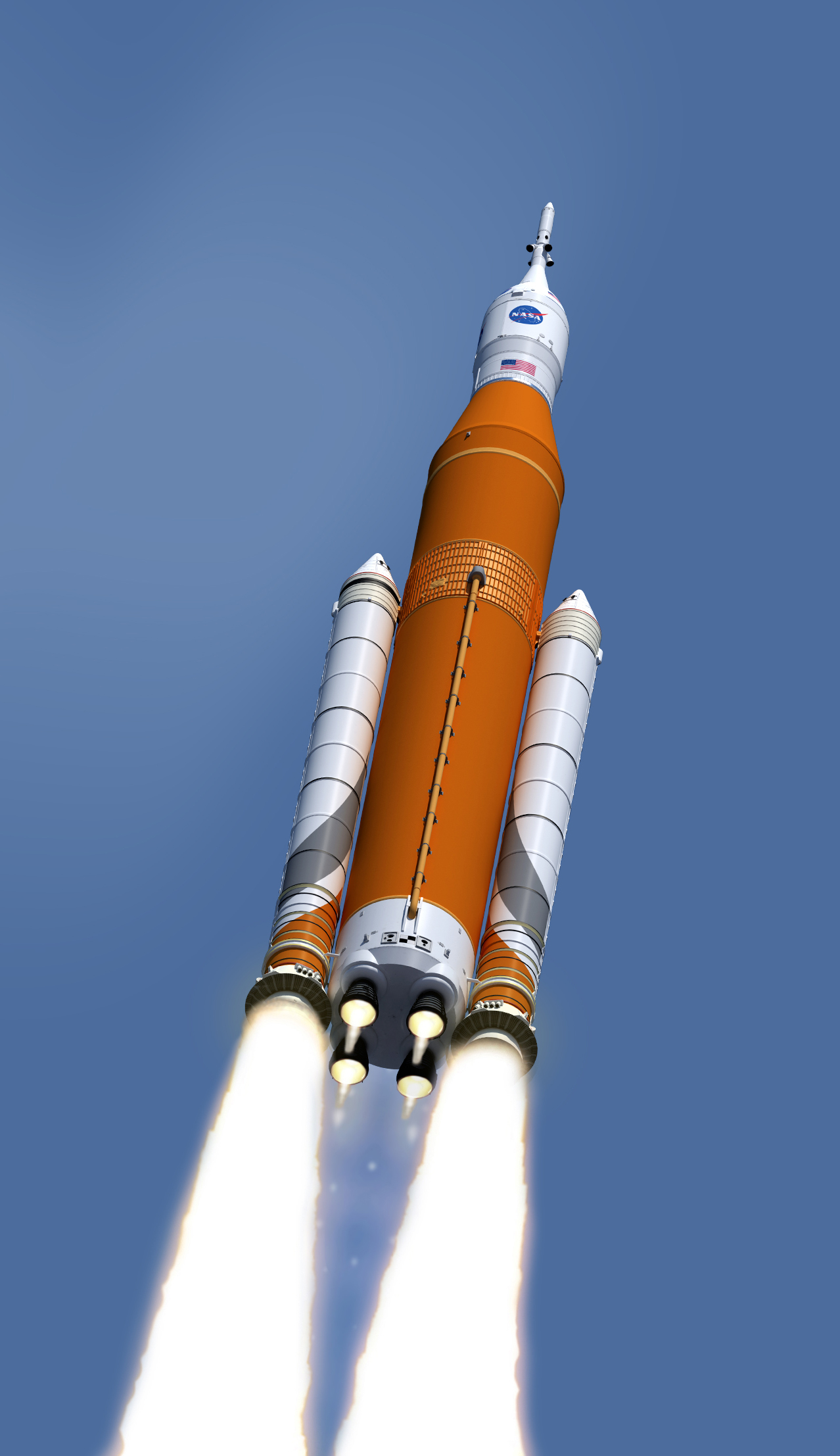 An artist's rendition of NASA's Space Launch System rocket in its latest configuration following its Critical Design Review.